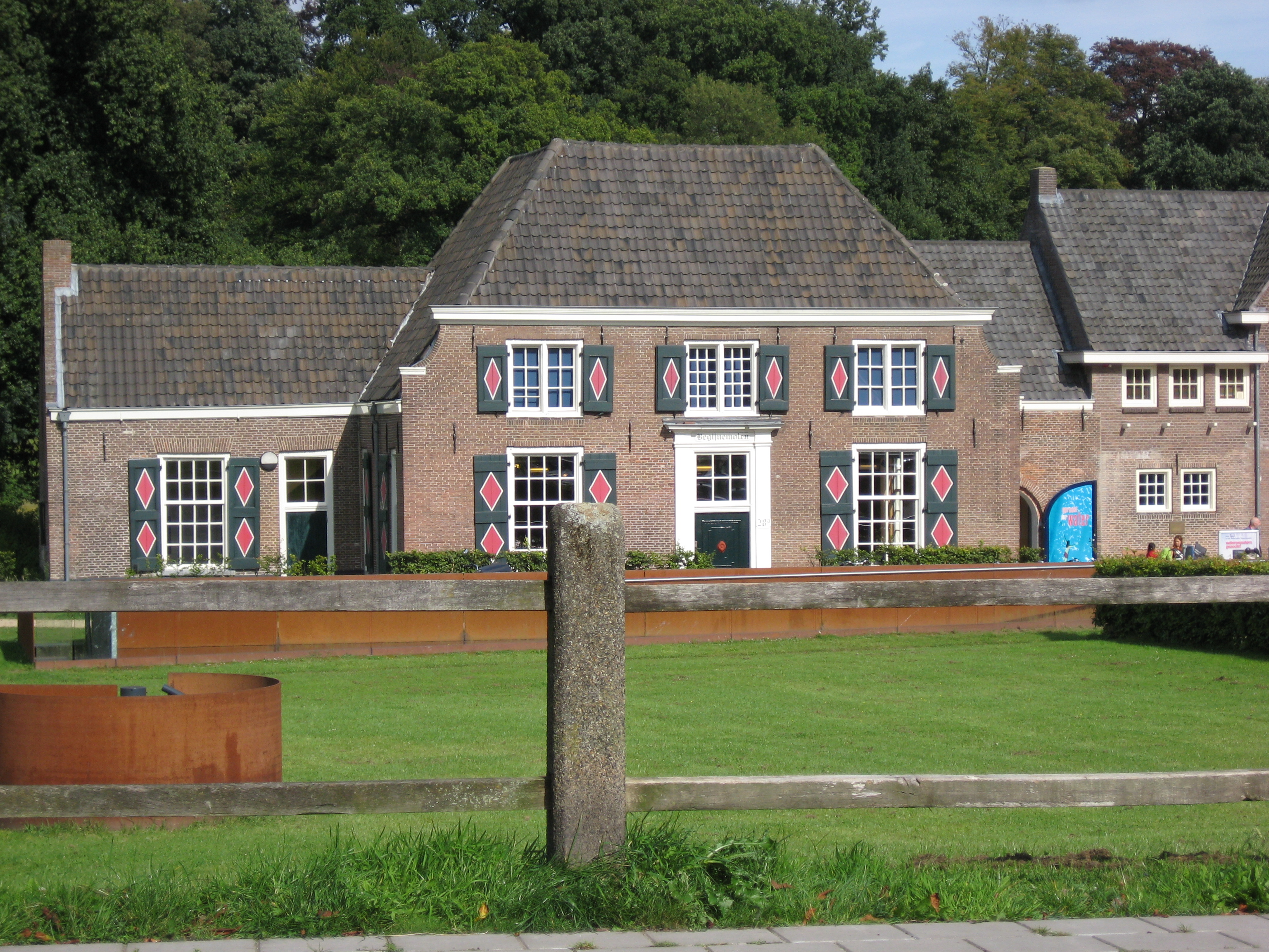 4″N 5°54′1.5″E / 51.988722°N 5.900417°E looking direction East